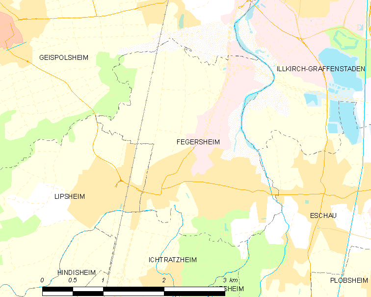 Map of French municipality